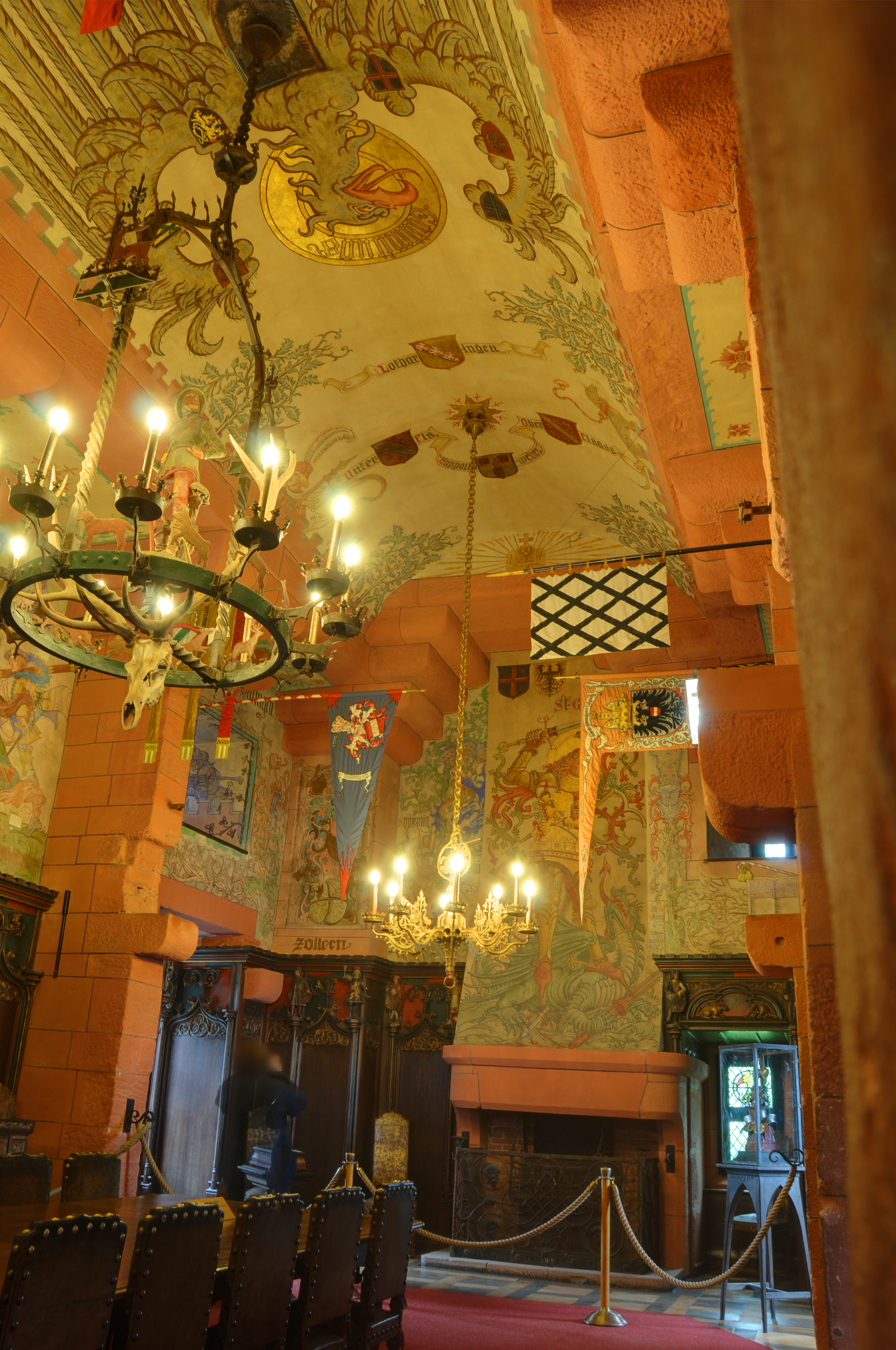 Kaiser room in the castle of the Haut-Koenigsbourg.